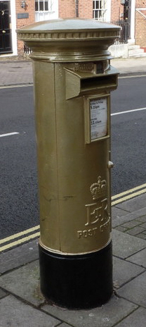 Lymington: Olympic gold postbox.